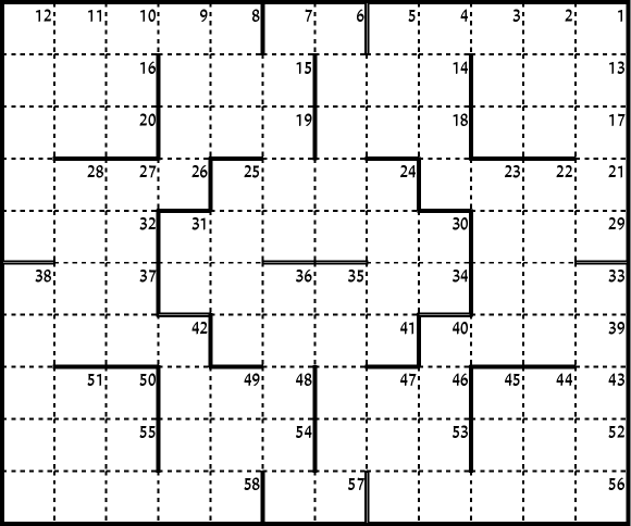 a new crossword